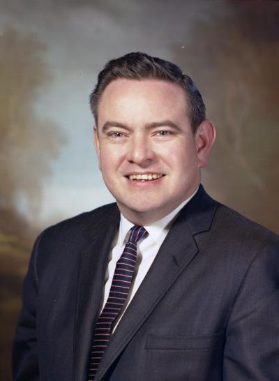 Senator Fred H. Dore, 1967